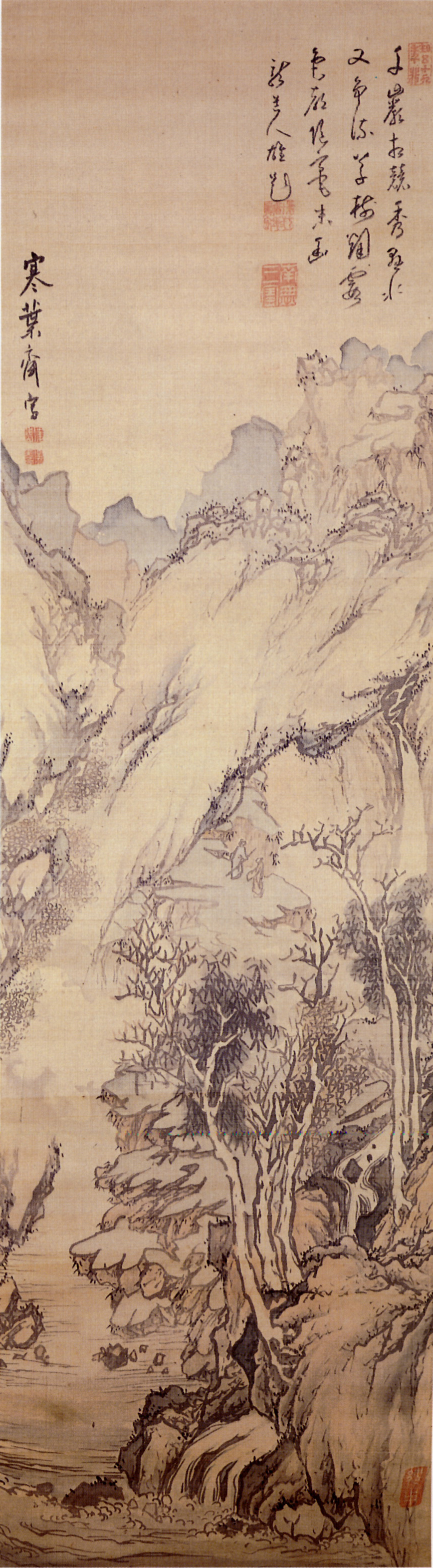 Takebe RyōTai Landscape,A hanging scroll, Ink and slight color on silk,Middle Edo period,Inscription by Kinryū Dōjin